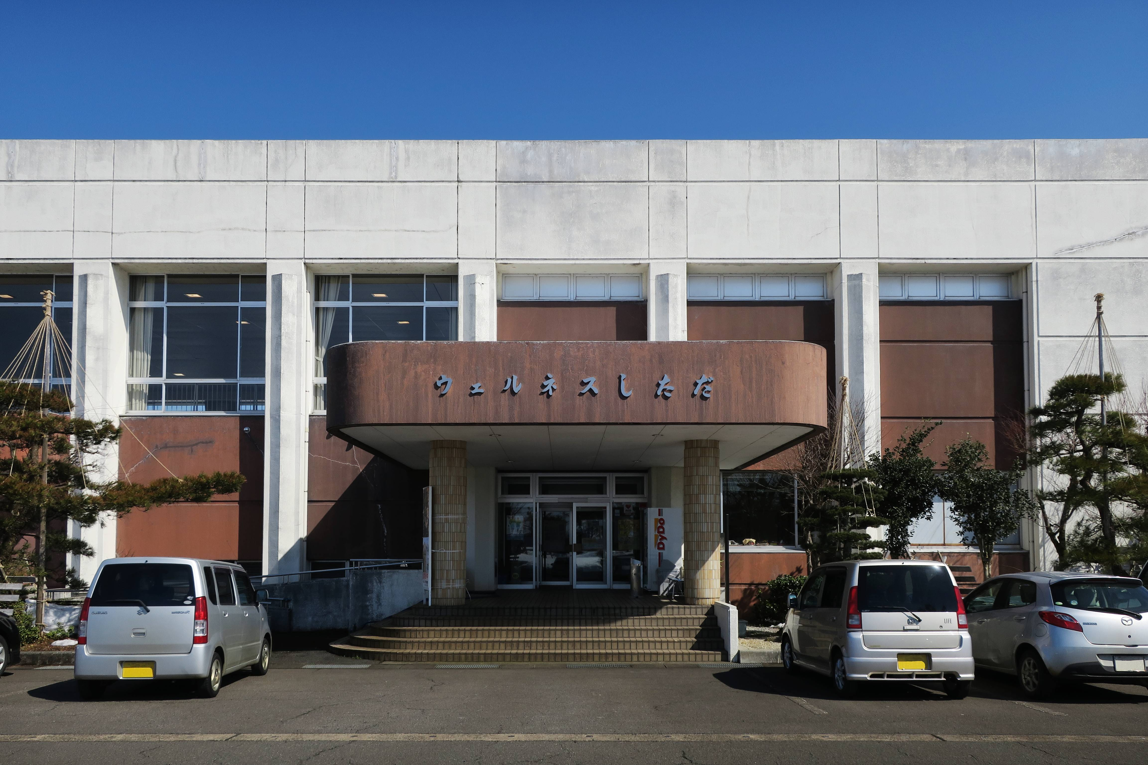 Wellness Shitada (Sanjo).